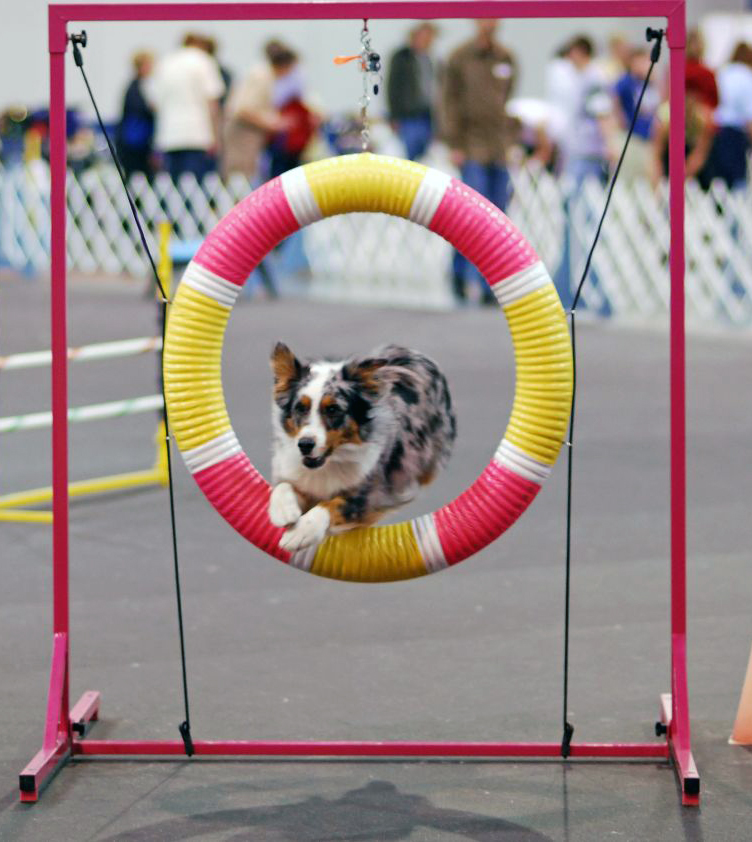 An Australian Shepherd doing agility at the Rose City Classic AKC Show 2007, Portland, Oregon, USA.